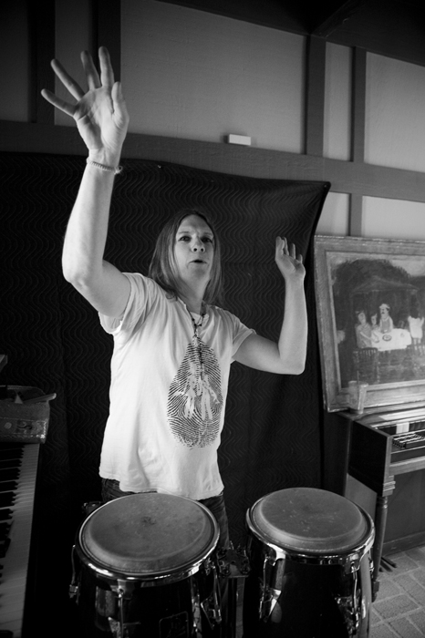 Kerry Brown playing conga in recording studio